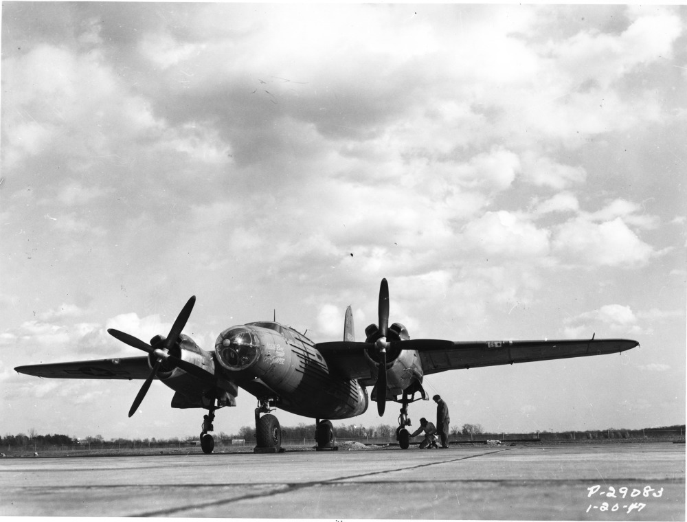 PictionID:41904608 - Title:B-26 Glenn L. Martin photo - Catalog:16_002351 - Filename:16_002351.tif - Ray Wagner was Archivist at the San Diego Air and Space Museum for several years and is an author of several books on aviation --- ---Please Tag these images so that the information can be permanently stored with the digital file.---Repository: San Diego Air and Space Museum